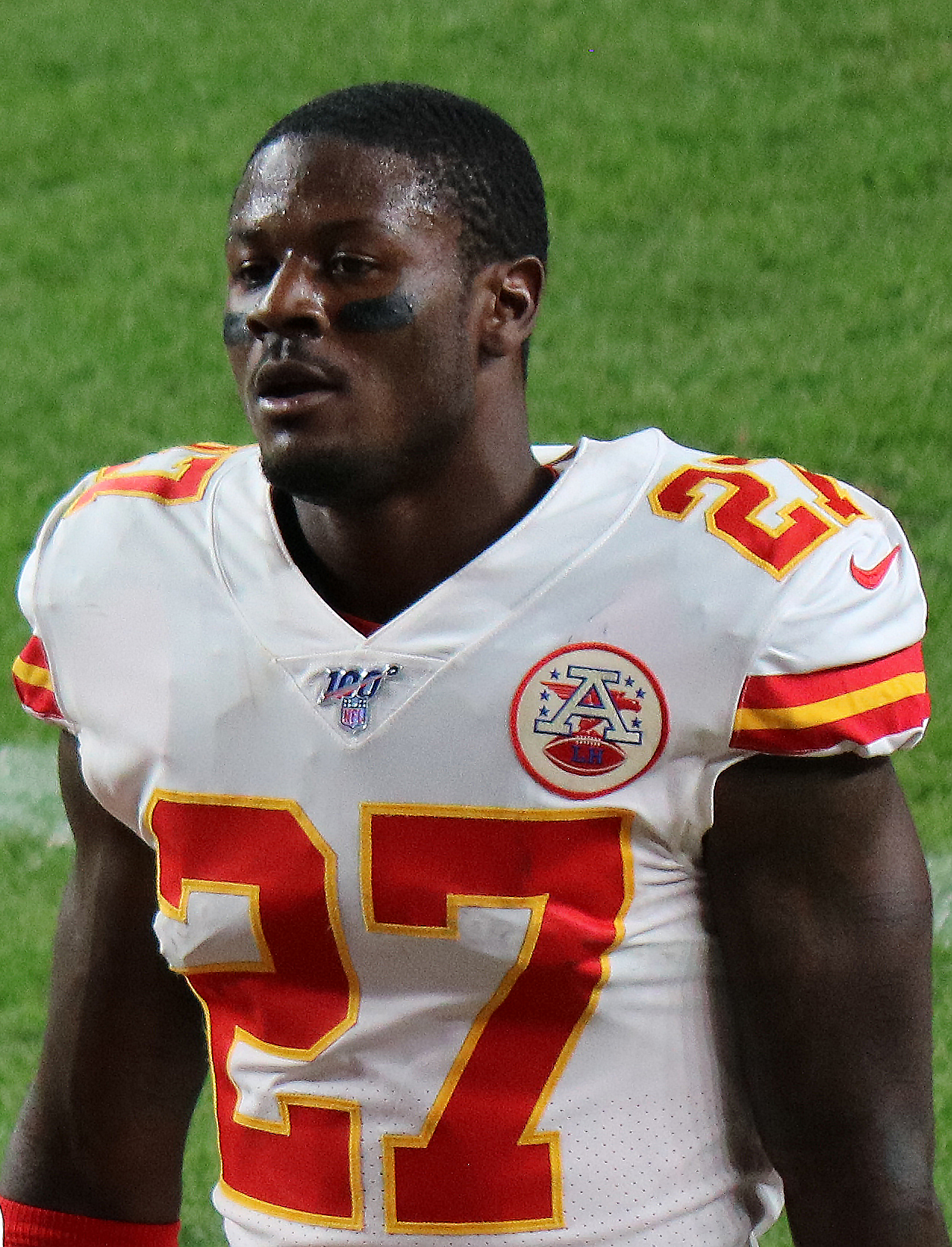 Rashad Fenton, a National Football League player.